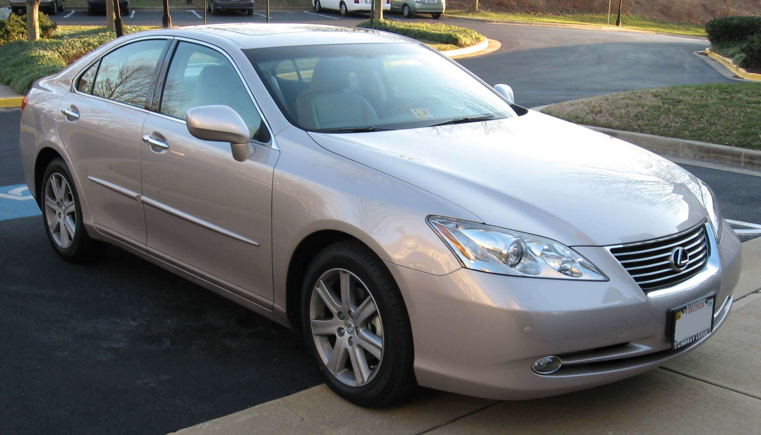 2007 Lexus ES350 photographed in USA.